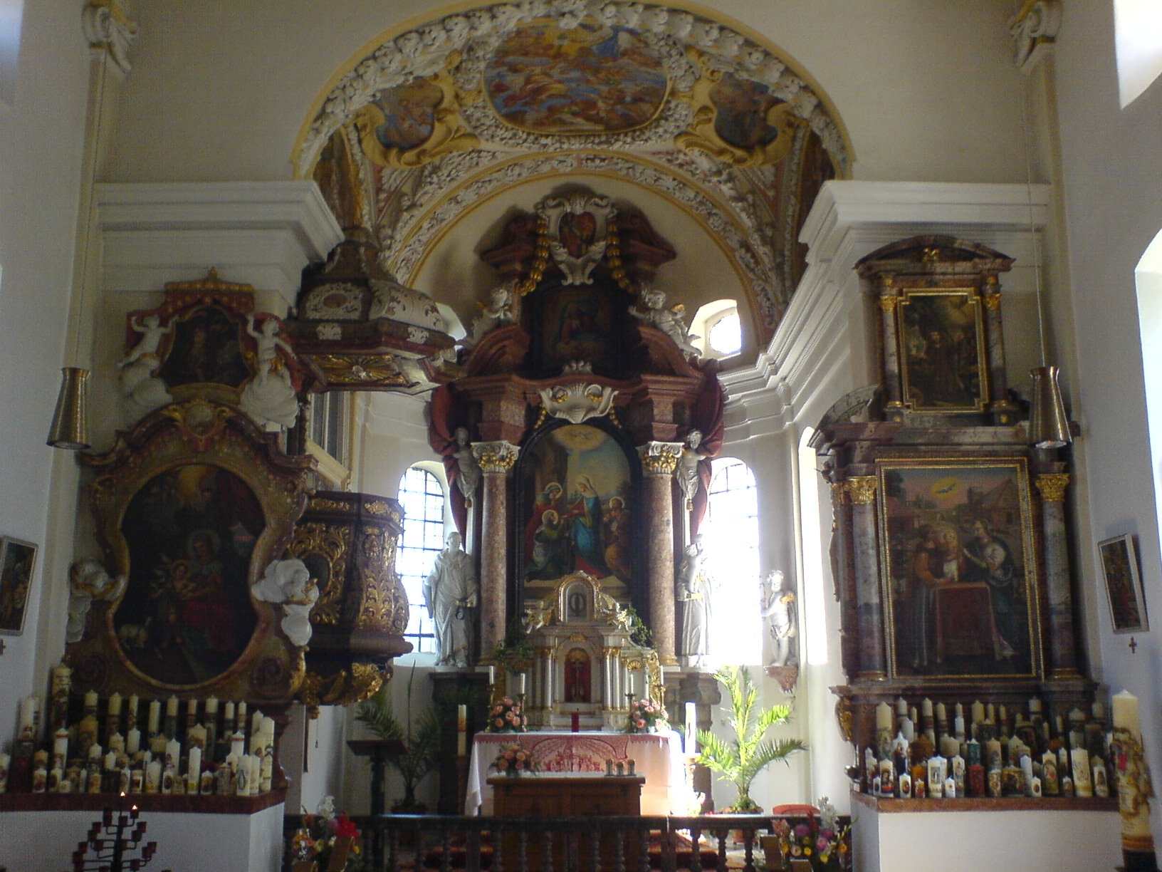 Interior of the pilgrimage church in Langwinkl/Germany